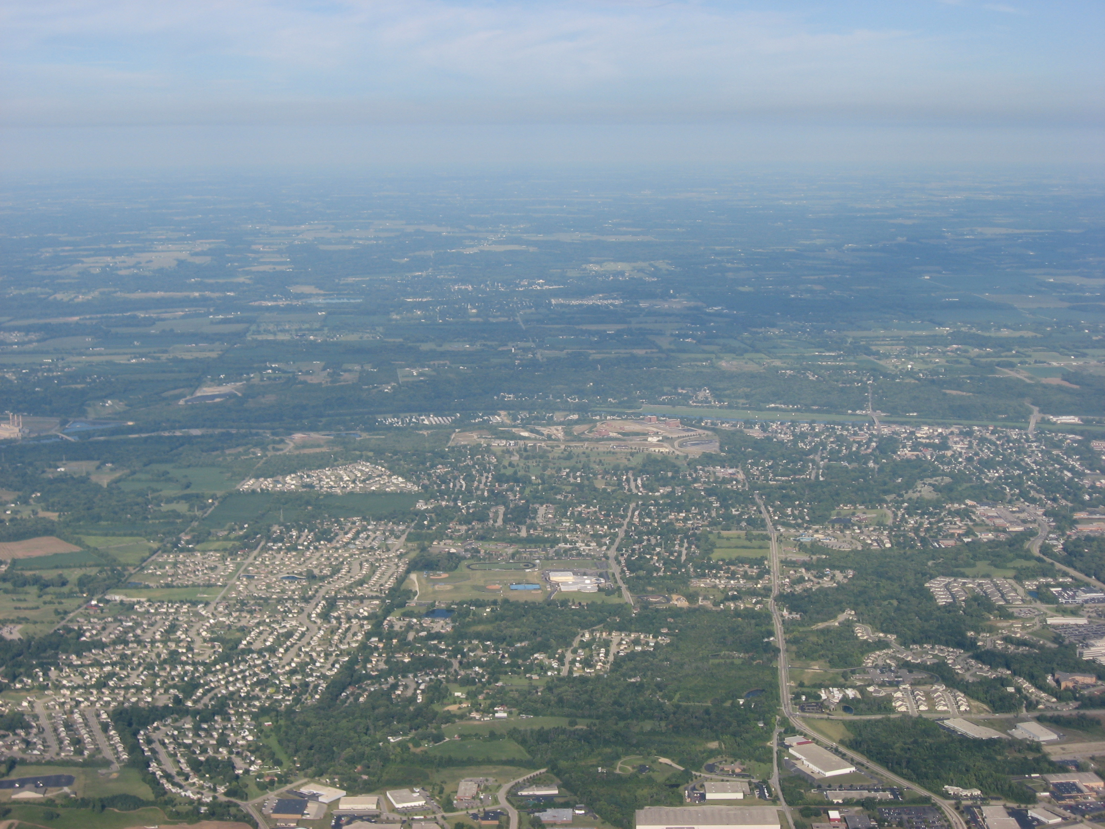 Aerial view of Miamisburg, a city in southern Montgomery County, Ohio, United States, looking toward downtown. The Great Miami River is visible on the far side of downtown. Picture taken from a Diamond Eclipse light airplane at an altitude of 4,580 feet MSL and a bearing of approximately 273º.